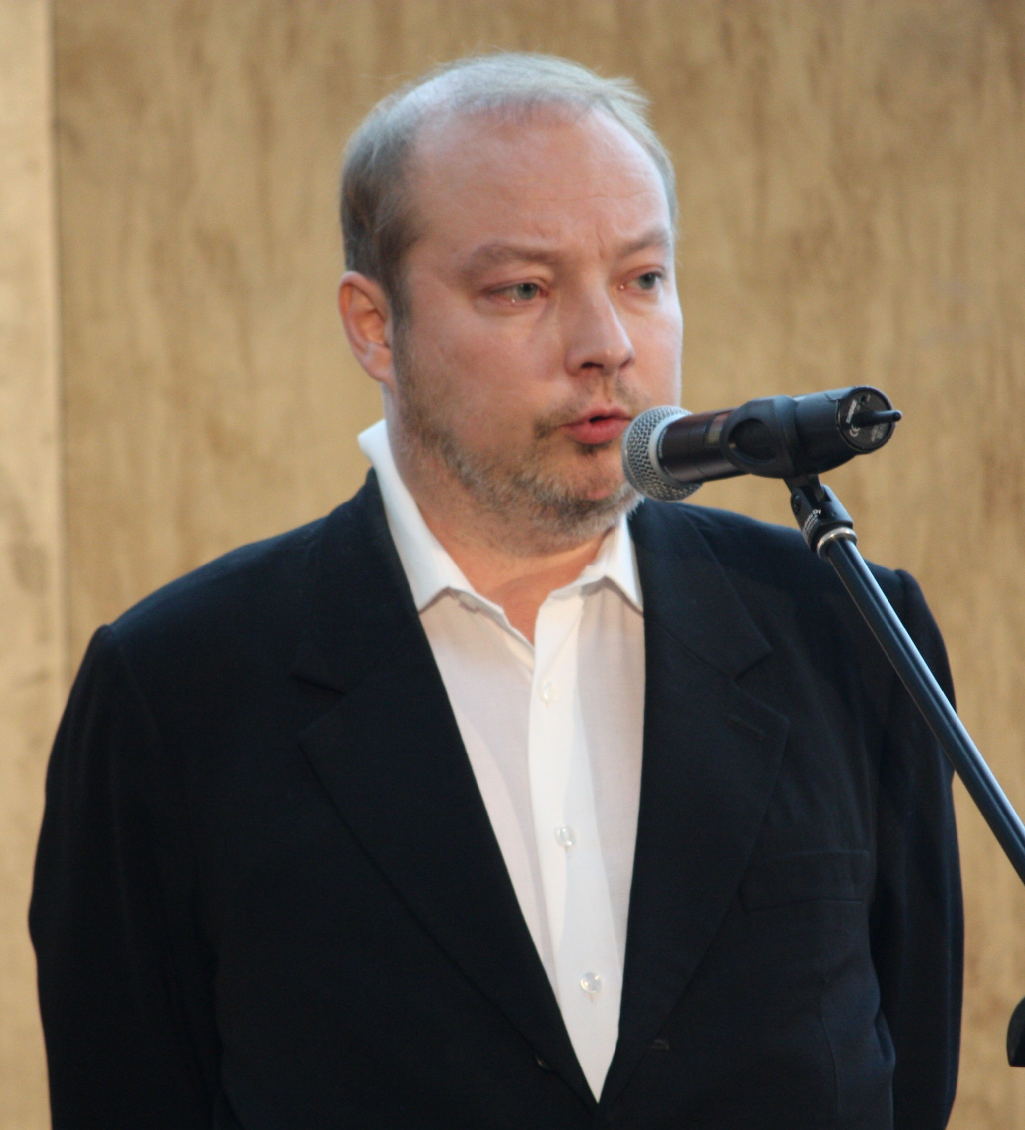 Finnish poet Panu Tuomi was reading his poems on The Day of Aleksis Kivi and Finnish Literature at Mediatori in Helsinki.